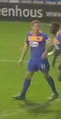 Liam Lawrence in action for Shrewsbury Town v Mansfield Town, 15 November 2014